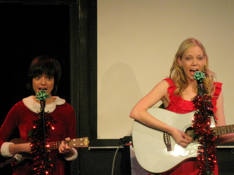 Garfunkel and Oates at the Upright Citizens Brigade Theater